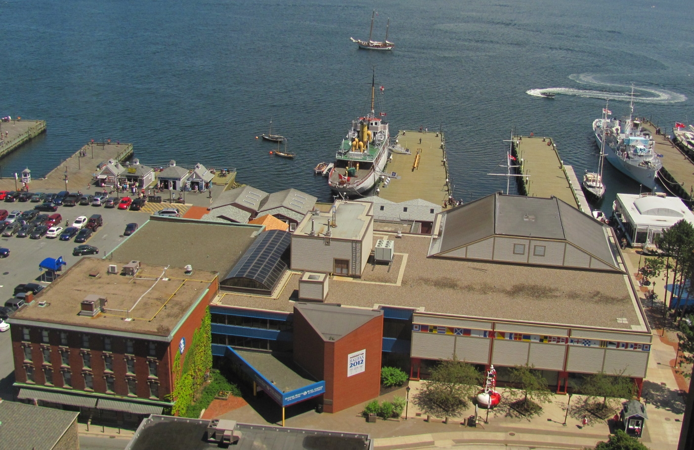 The Maritime Museum of the Atlantic on the Halifax Harbour waterfront in Halifax, Nova Scotia, Canada. Seen from the west, the image shows the museum buildings in the foreground on Lower Water Street with the museum wharves in the background including the museum's 100 year old steamship CSS Acadia in the centre. Three of the museum's small boat collection can be seen to the left of Acadia. On the right is HMCS Sackville, a restored WW II corvette, not part of the museum but a neighbour during the summer months. The harbour tour boat Mar can be seen on the water in the distance while a Canadian Navy RIB speedboat buzzes around the stern of Sackville.